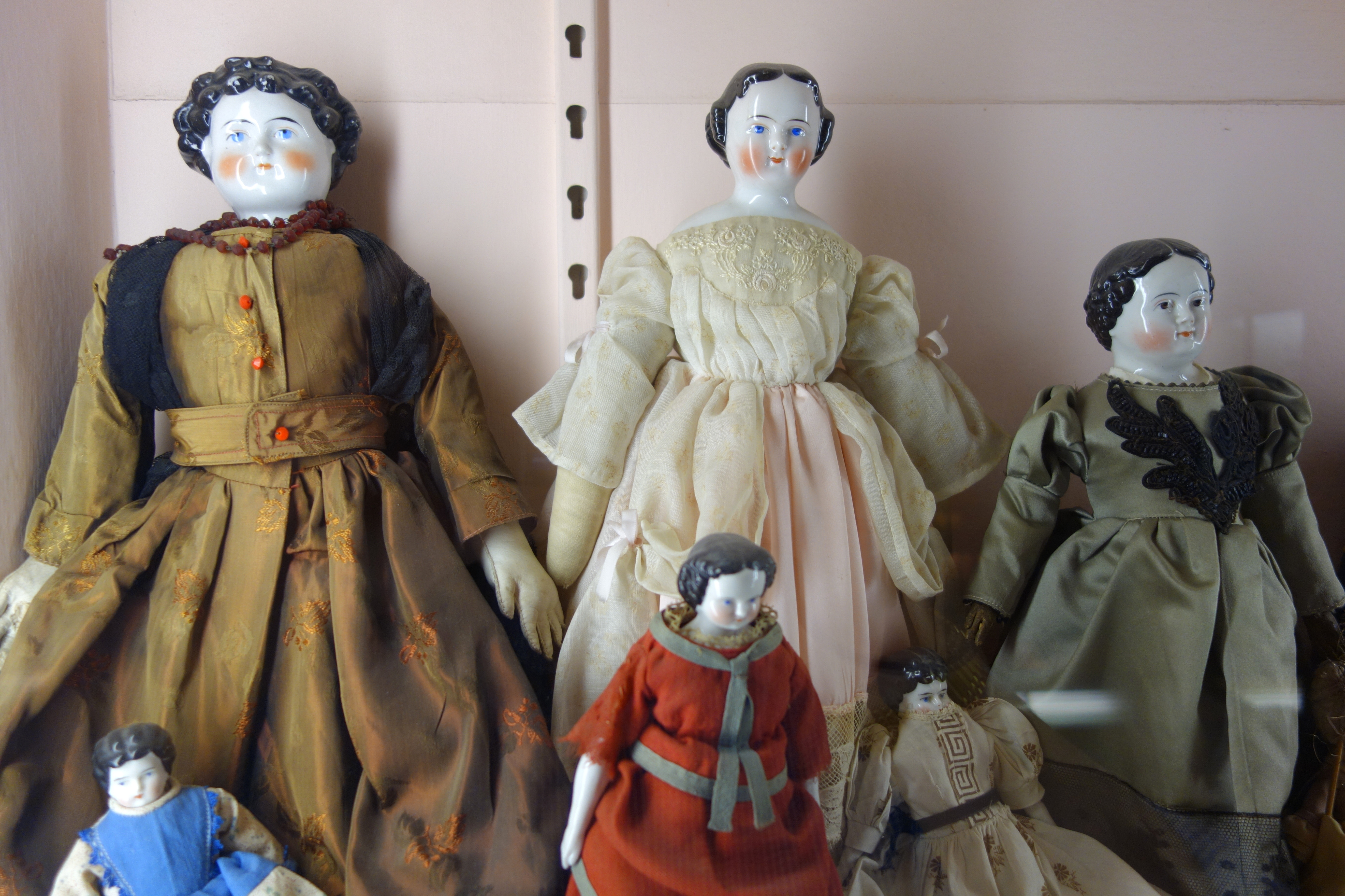 Doll exhibit in the Fairbanks Museum and Planetarium, St. Johnsbury, Vermont, USA. This artwork is old enough so that it is in the public domain.